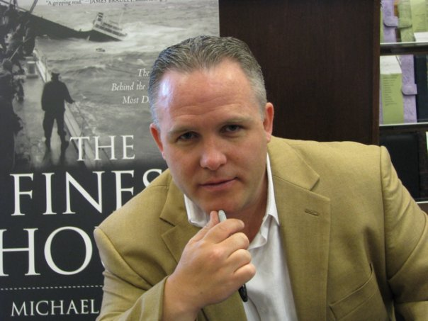 This is a picture of author Casey Sherman